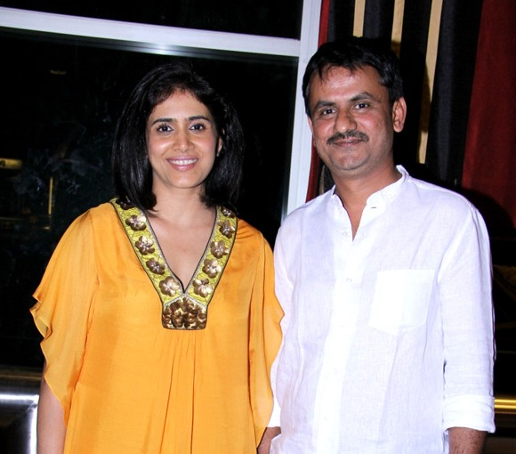 Indian film actors Sonali and Girish at the 14th Mumbai Film Festival